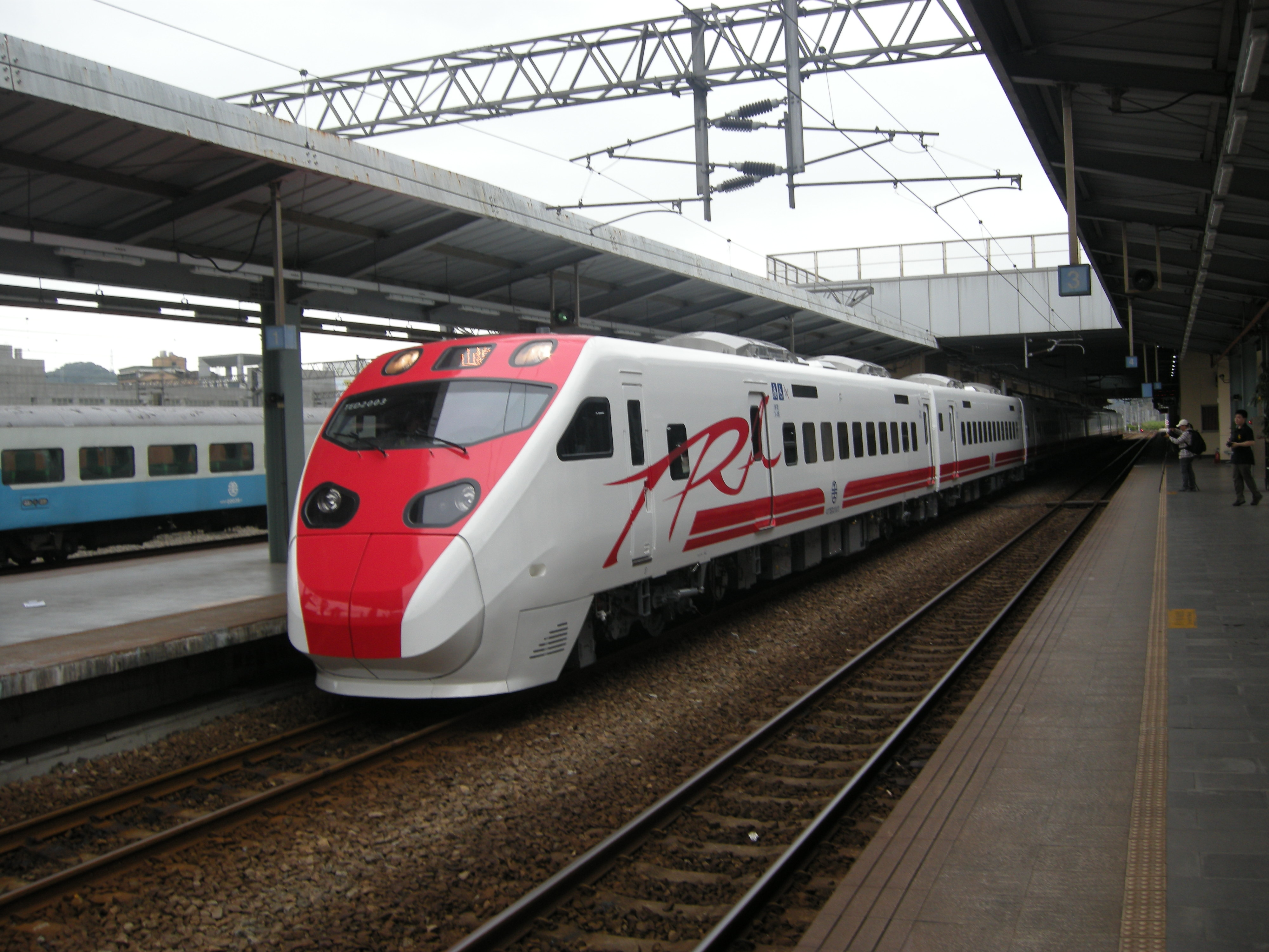 Taiwan Railway TEMU2000 series TED2003 in Qidu Station.